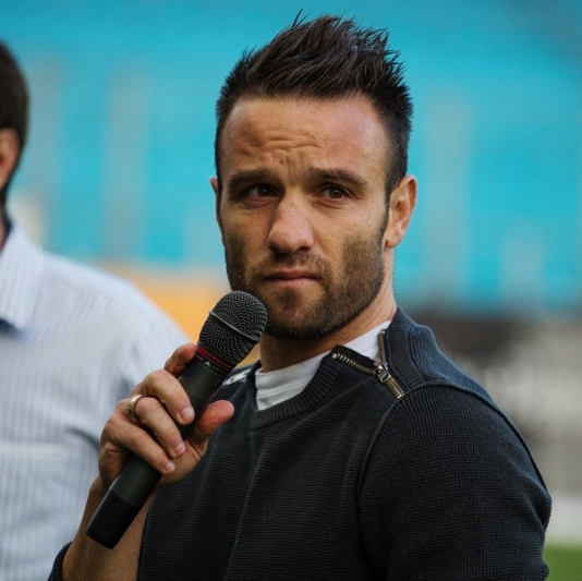 Mathieu Valbuena